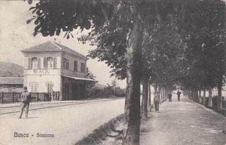 Busca railway station